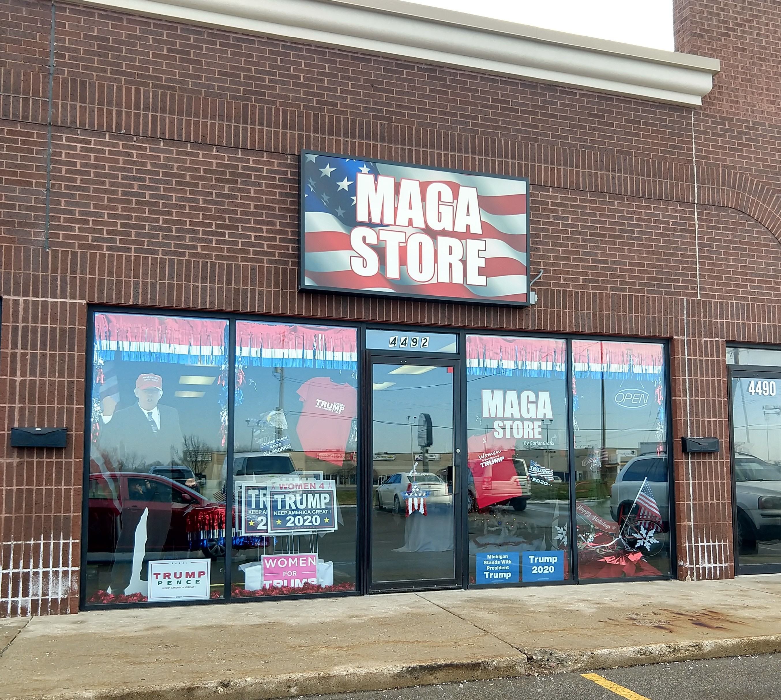 This is a MAGA (Make America Great Again) Trump merchandise store launched during the fall of 2019 in Plainfield Charter Township, a suburb of Grand Rapids, Michigan.